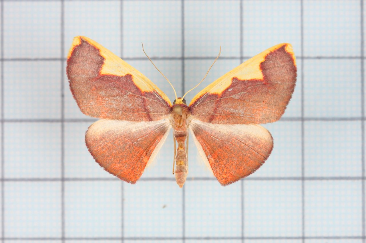 Nothomiza flavicosta Prout 1914 黃大齒尺蛾 鞍1:P.18,Pl.1-16 Endemic Species of Taiwan female